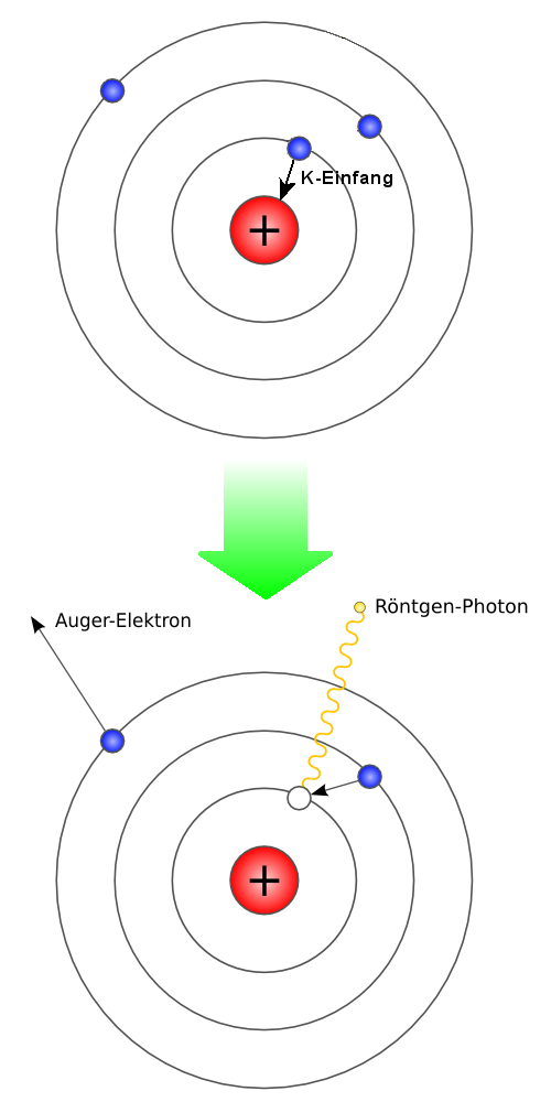 Electron capture.